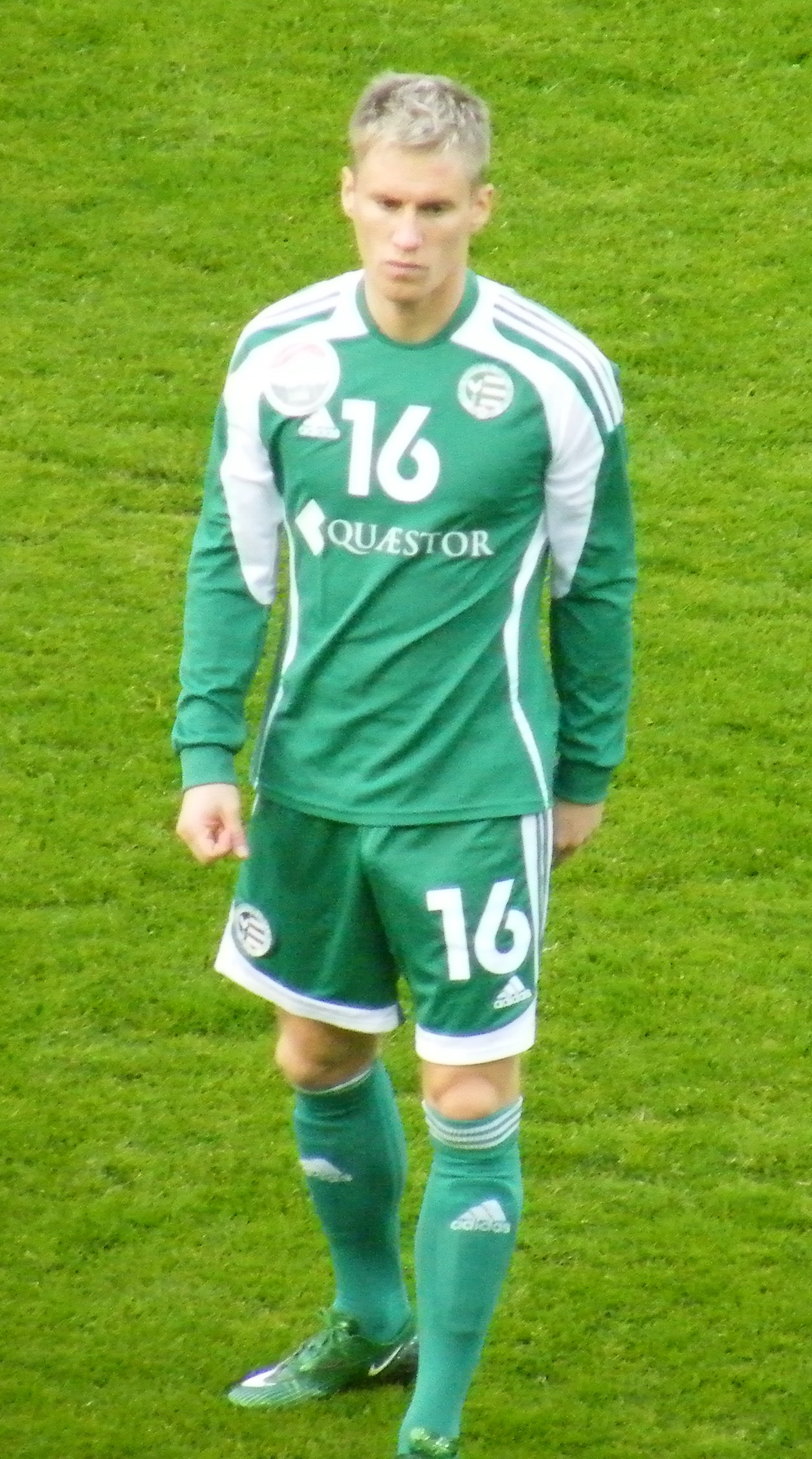 Tarmo Kink Estonian association football player.